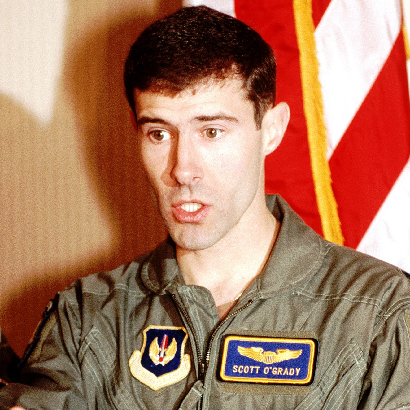 US Department of Defense description: News media from around the world was present to document Capt. Scott F. O'Grady's press conference. Capt. O'Grady's F-16 Fighting Falcon was shot down over Bosnia on June 2, 1995, while he was flying in support of Operation Deny Flight. After 6 days of evasion, he was rescued by US Marines from the 24th Marine Expeditionary Unit, deployed from the USS KEARSAGE (LHD-3).